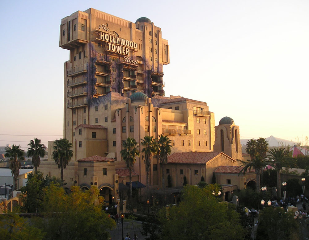 California Adventure's The Twilight Zone Tower of Terror Taken by Ellen Levy Finch (User:Elf) Feb 2006